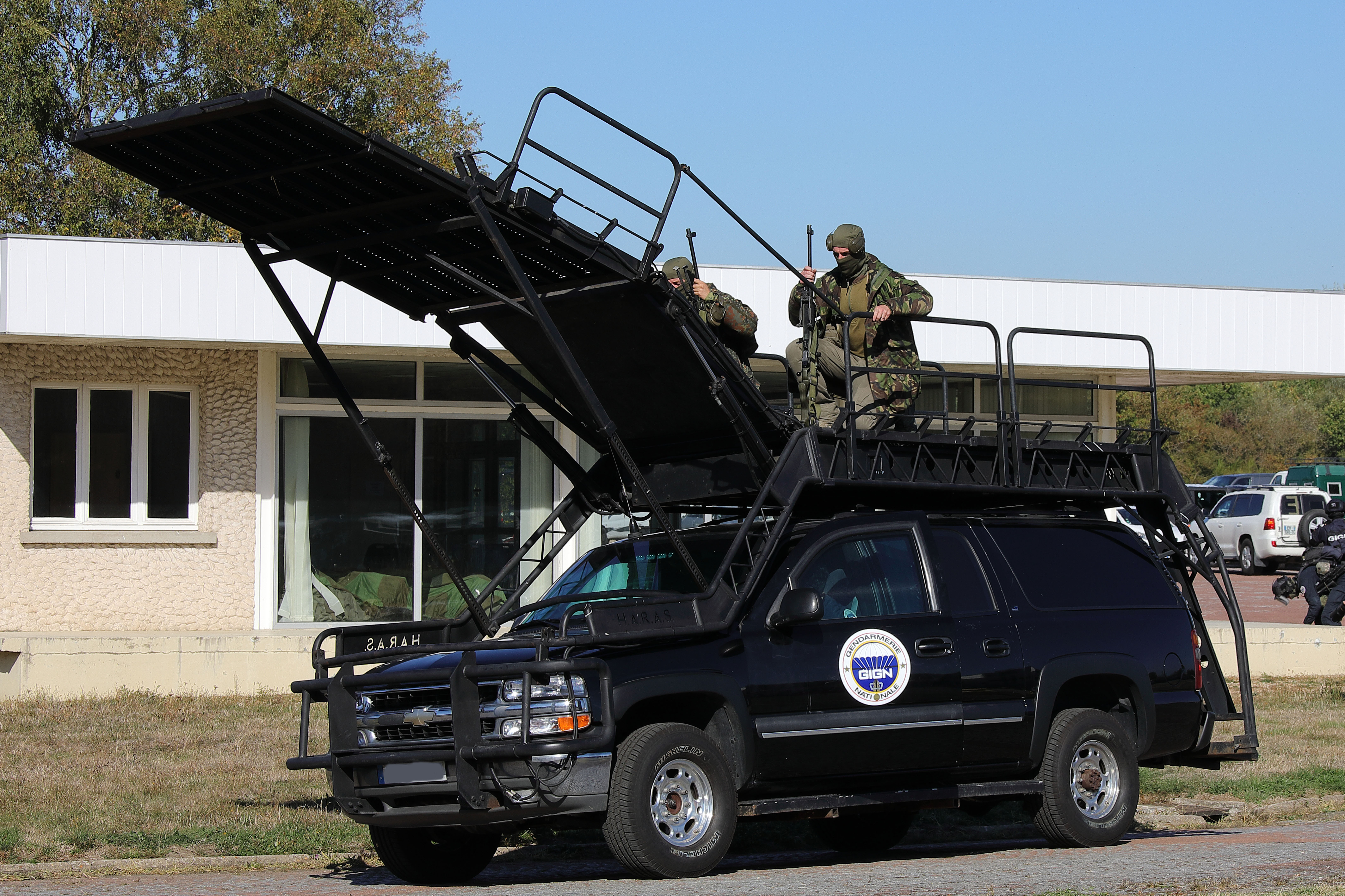 French GIGN snipers about to take position on a rooftop during a hostage rescue demo. Satory September 2018